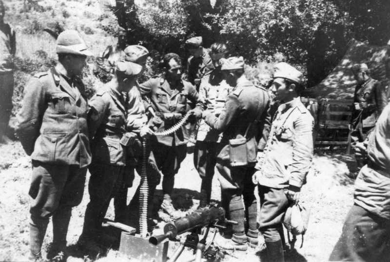 Italian and Bulgarian military on the border between Albania and Bulgaria in Macedonia in 1941 in front of dismantled machine gun Schwarzlose.